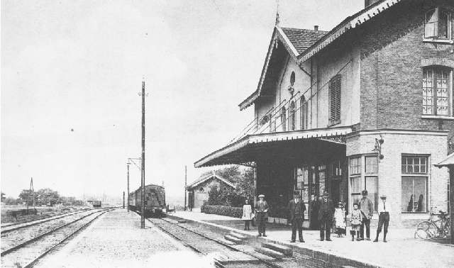 Train station in Scheemda, the Netherlands, in 1925